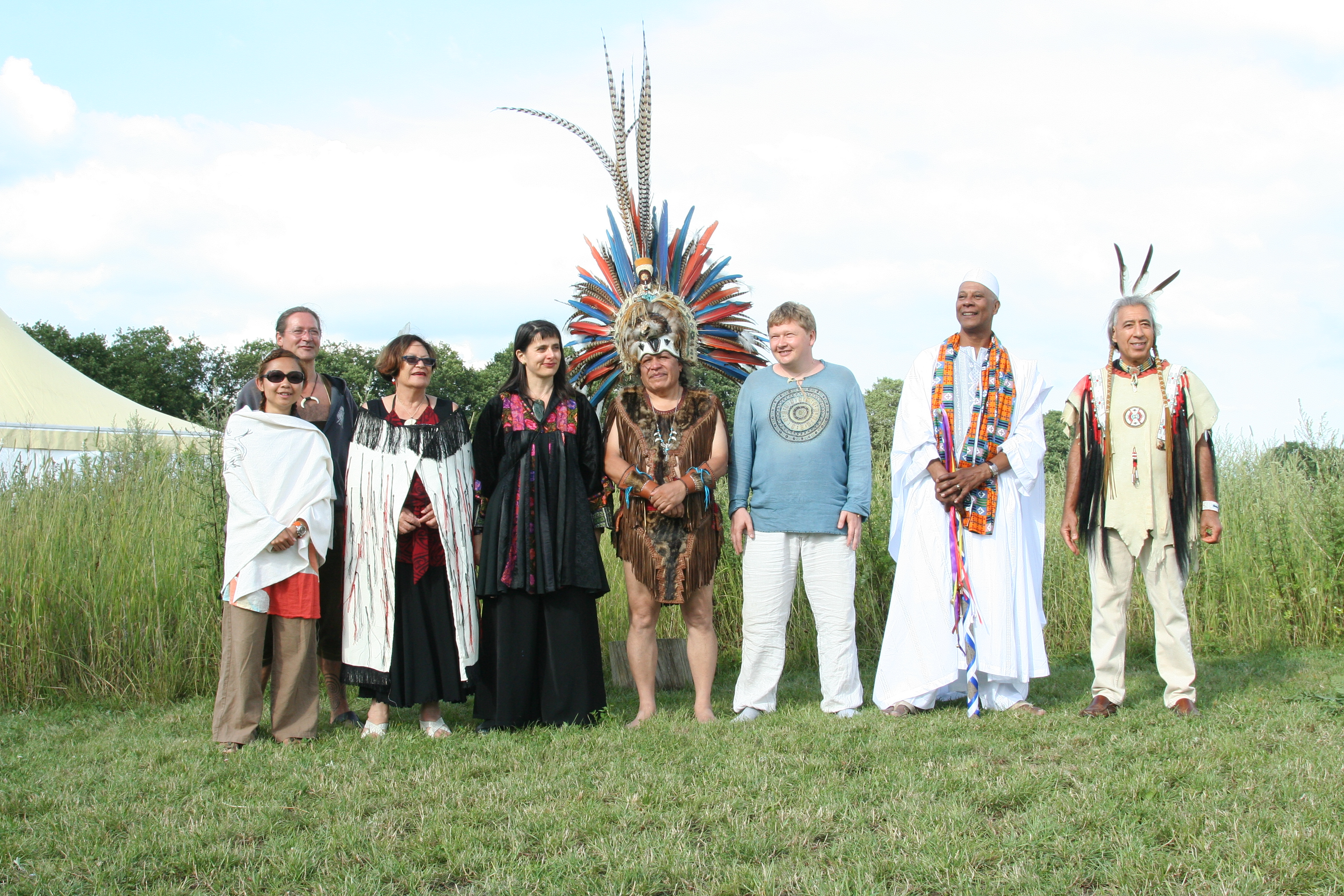 Shamans from several cultures at Shamanic Teachings in the Netherlands. Shamans are (from left to right): Ayako Goh from Singapore, Haka-teacher Klaus Wintersteller, Maori matakite Wai Turoa Morgan, Jewish Orna Ralston, Aztec indian Nopaltzin, Siberian shaman Ahamkara, Afro-Cuban sangoma Elliott Rivera, North-American chief and medicinman Dancing Thunder